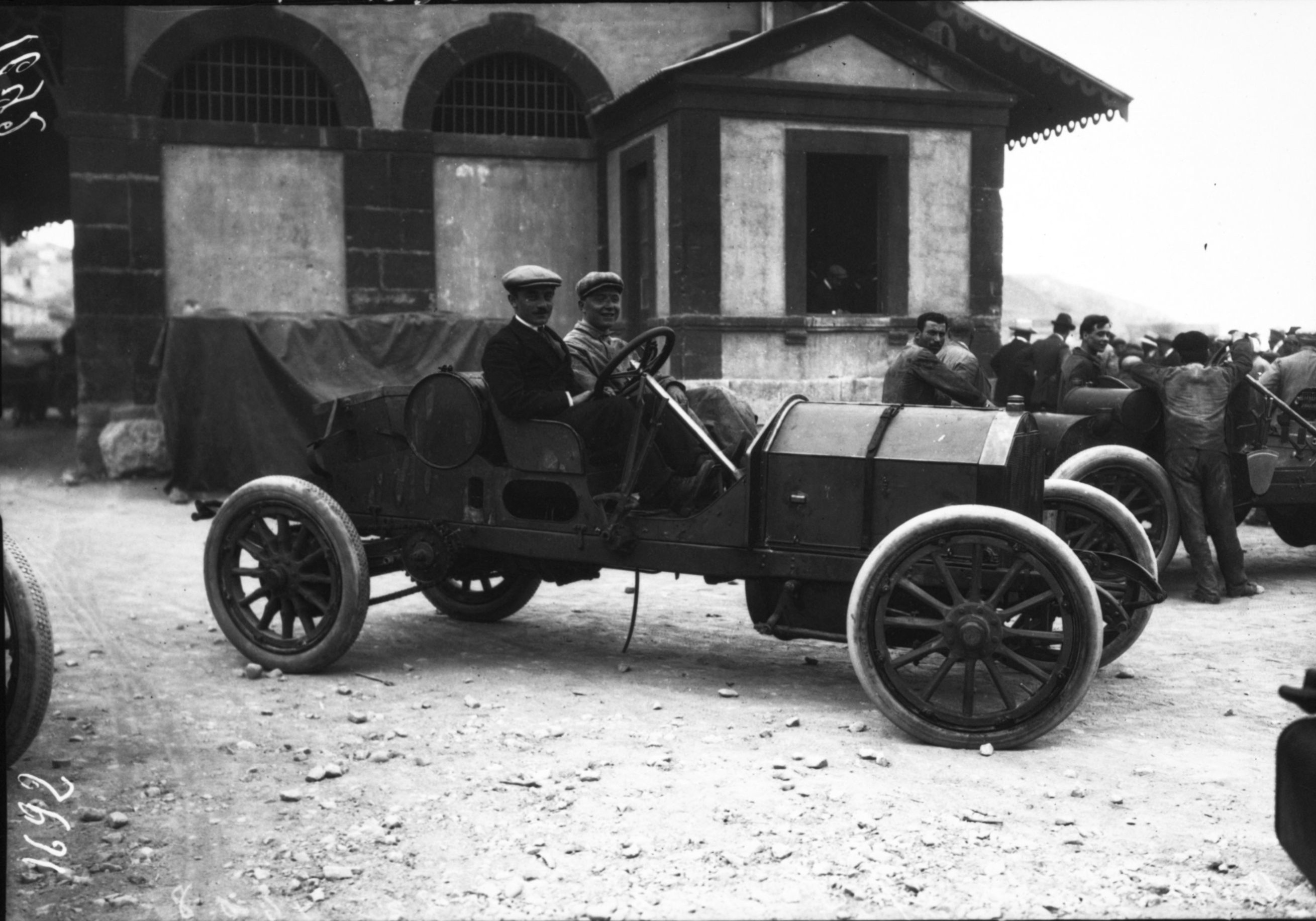 Tullio Cariolato in his Franco at the 1908 Targa Florio.